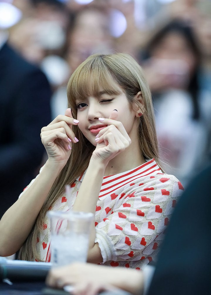 BLACKPINK fansign event at the AK Plaza in Bundang.